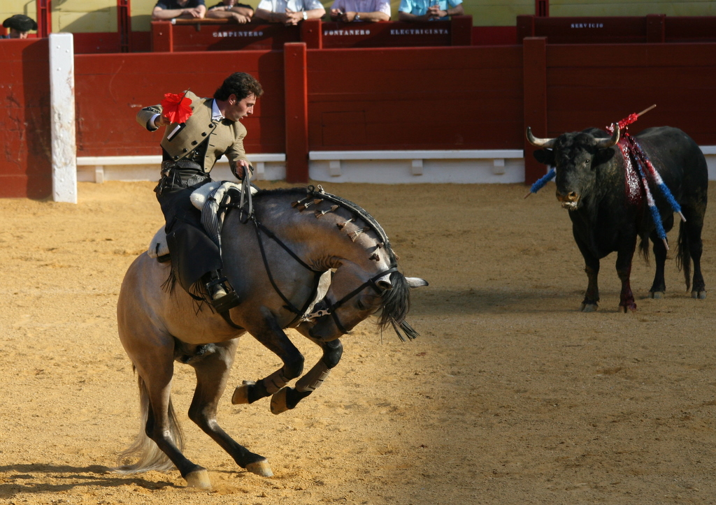 Andy Cartagena in 2008